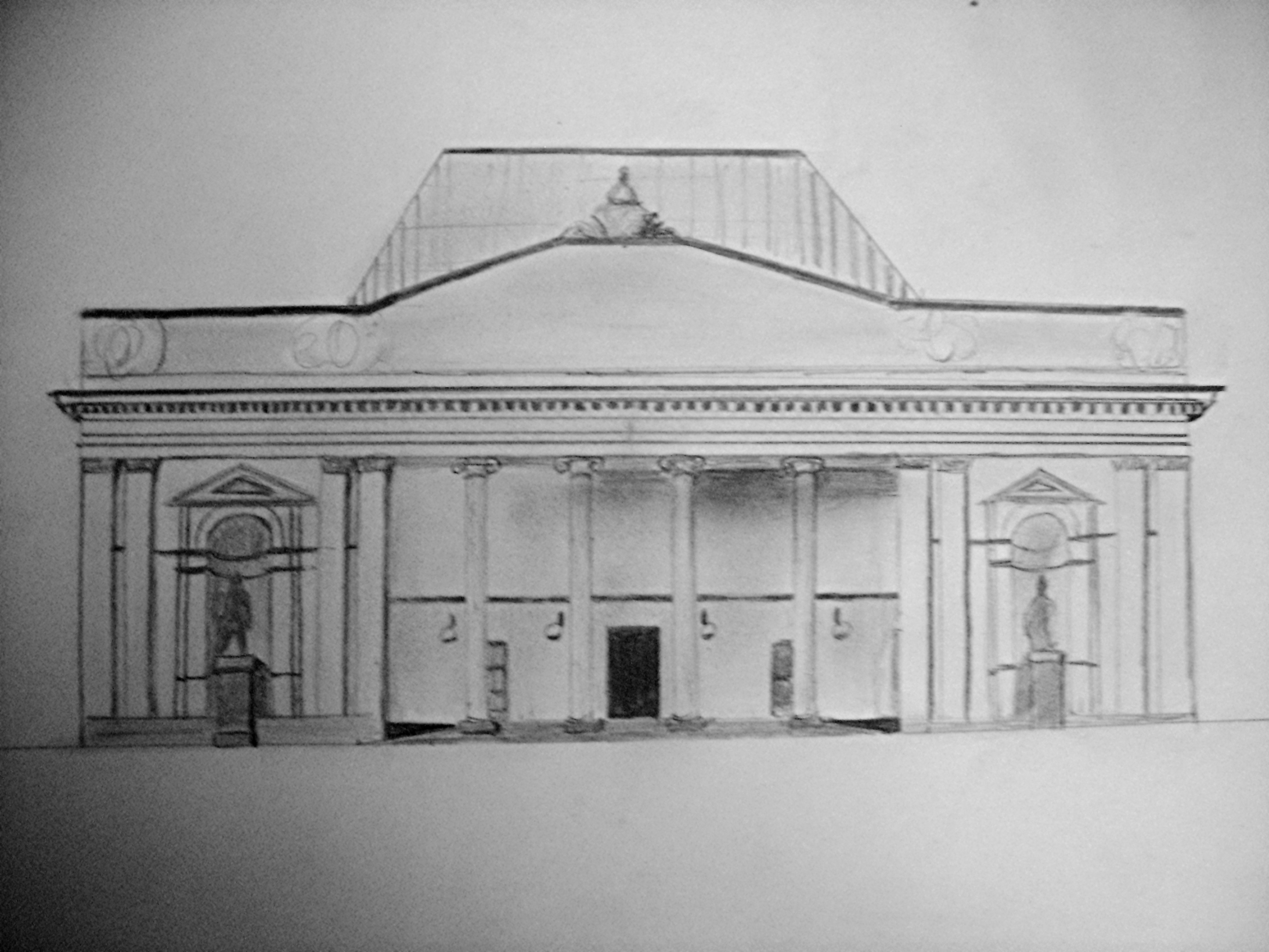 Elevation of the National belarusian museum of art, Minsk